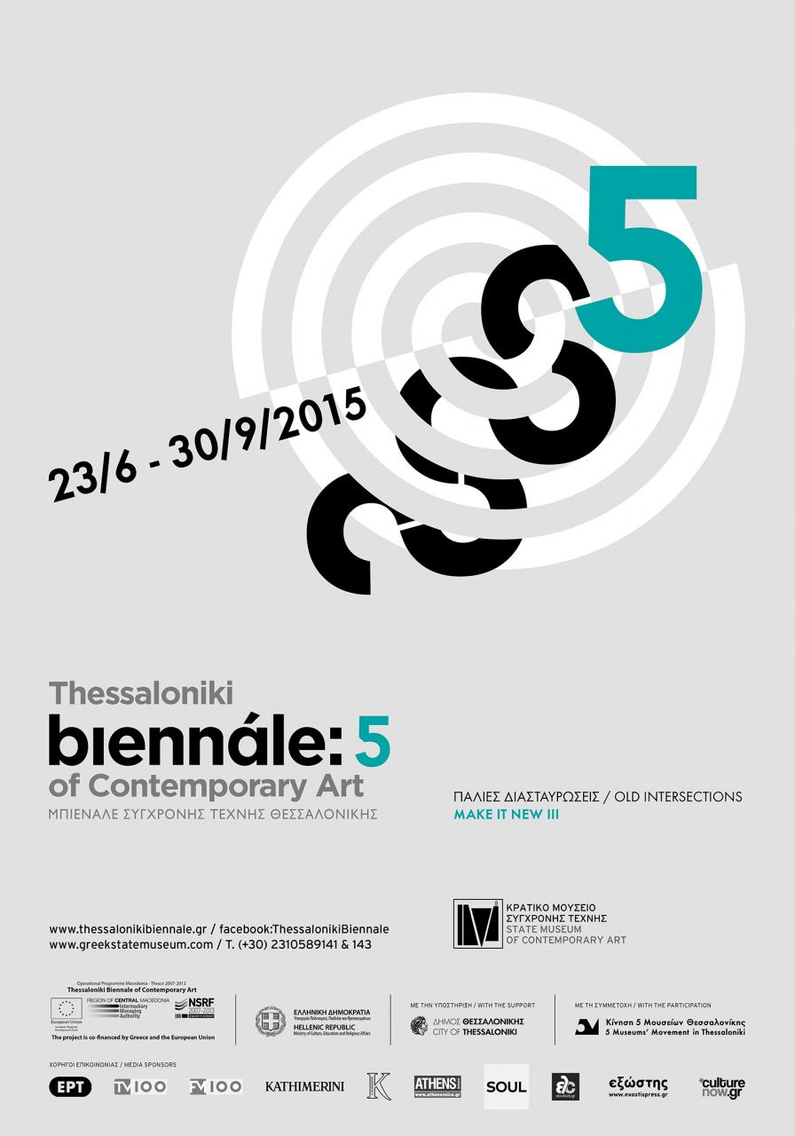 Biennale5